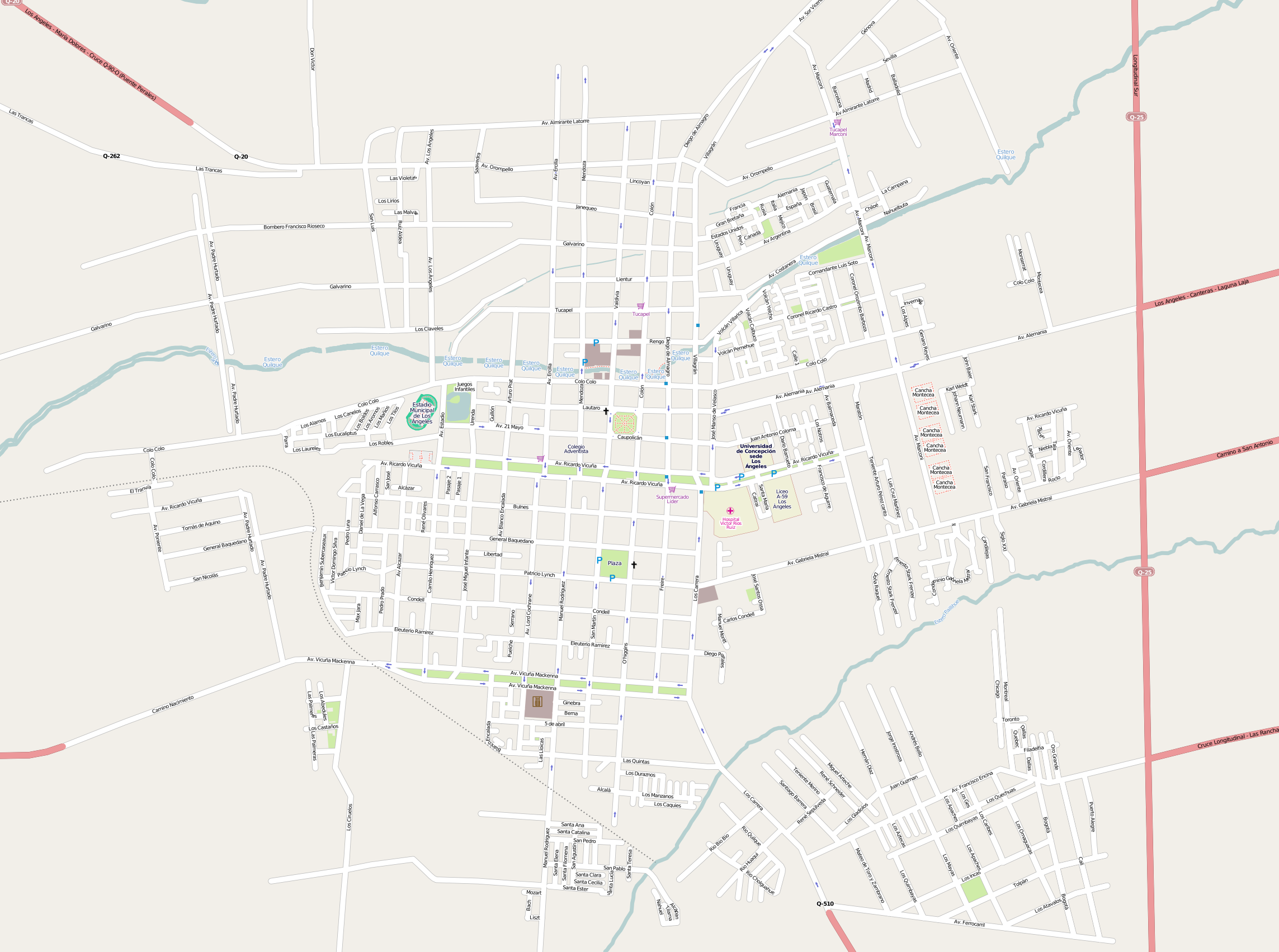 City map of Los Ángeles, Chile